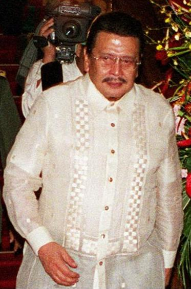 Cropped from a defense department photo of President Joseph Estrada.